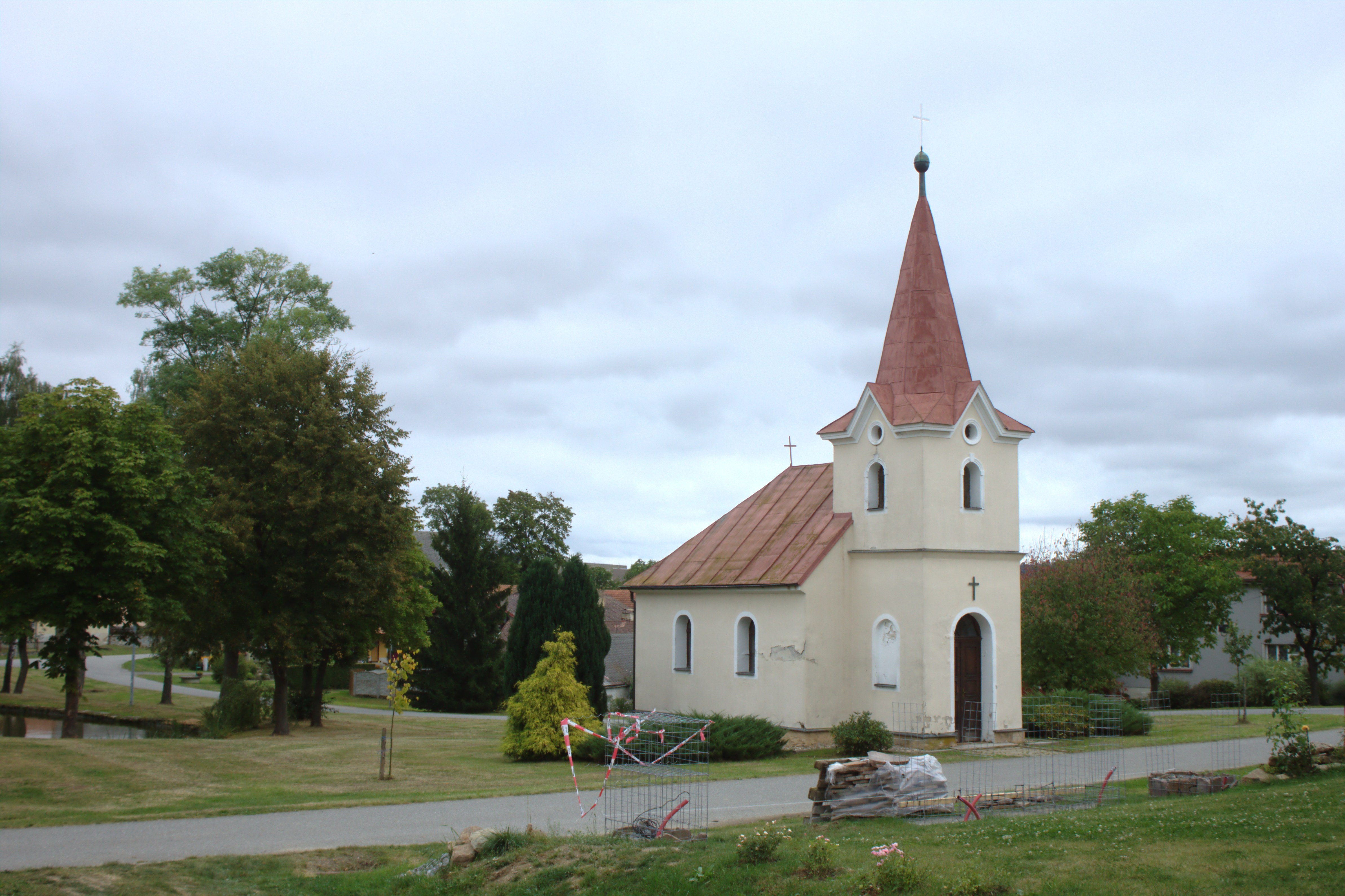 A chapel in the village of Samšín, at the main common